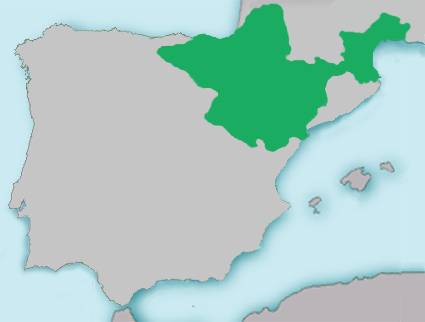 Distribution map of Barbatula quignardi.